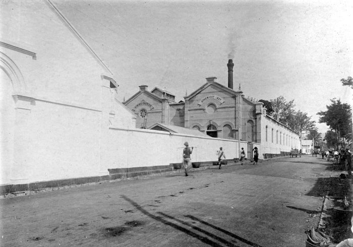 The quinine factory in Bandung, West-Java